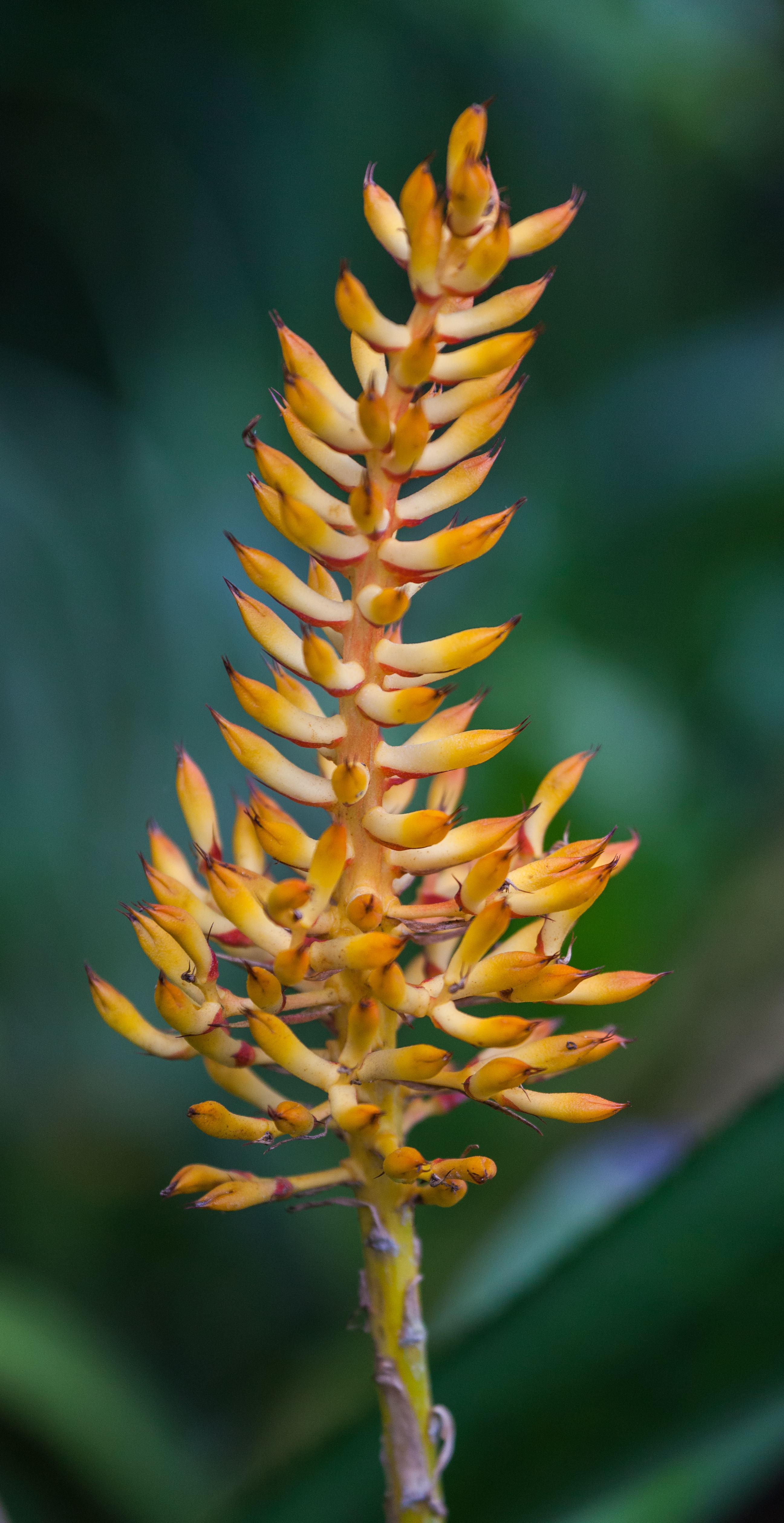 Aechmea caudata, Munich Botanical Garden, Germany